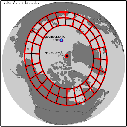 Contours of constant geomagnetic latitude and longitude (calculated using the 2000 epoch AACGM coordinate system based on the algorithm as described in Baker and Wing [A new magnetic coordinate system for conjugate studies at high latitudes, J. Geophys. Res., 94(A7), 9139–9143, 1989]). The latitude contours indicate 65, 70, and 75 degrees magnetic latitude, which corresponds roughly to the typical auroral oval. Also shown are contours of magnetic lonitude, separated by one hour of local time. This image was created by Eric Donovan. The image may be reproduced without permission, however it should be attributed to Eric Donovan of the University of Calgary.